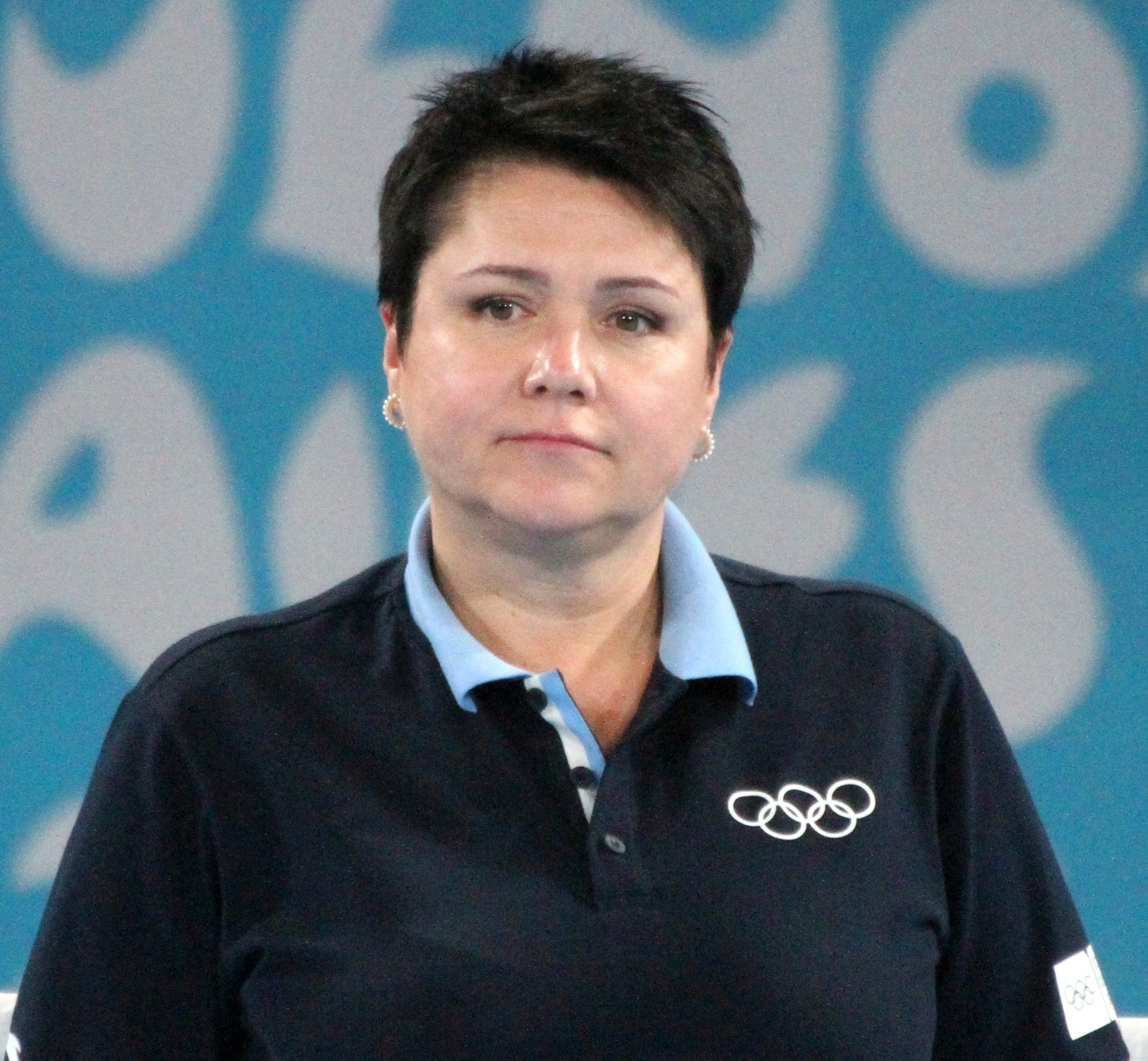 Boxing at the 2018 Summer Youth Olympics on 18 October 2018 – Boys' bantamweight Victory Ceremony - Gold: Abdumalik Khalokov (Uzbekistan), Silver: Maksym Halinichev (Ukraine), Bronze: Mirco Jehiel Cuello (Argentina); Medal handover by Daina Gudzinevičiūtė (IOC, Lithunia), Gift presented by Osvaldo Bisbal (Argentina, AIBA).